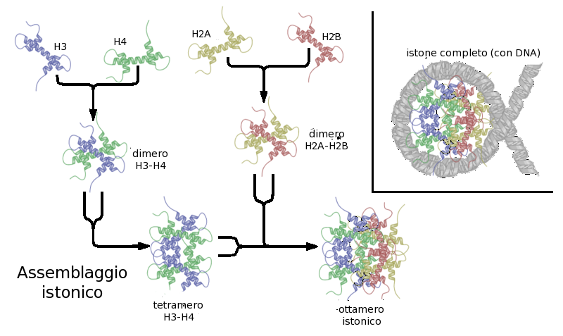 Own edit (+ Italian translation) of . Schematic representation of the assembly of the core histones into the nucleosome. Referenced from Alberts et al. Molecular Biology of the Cell. Garland Science, 2001. ISBN 0-815340-72-9.